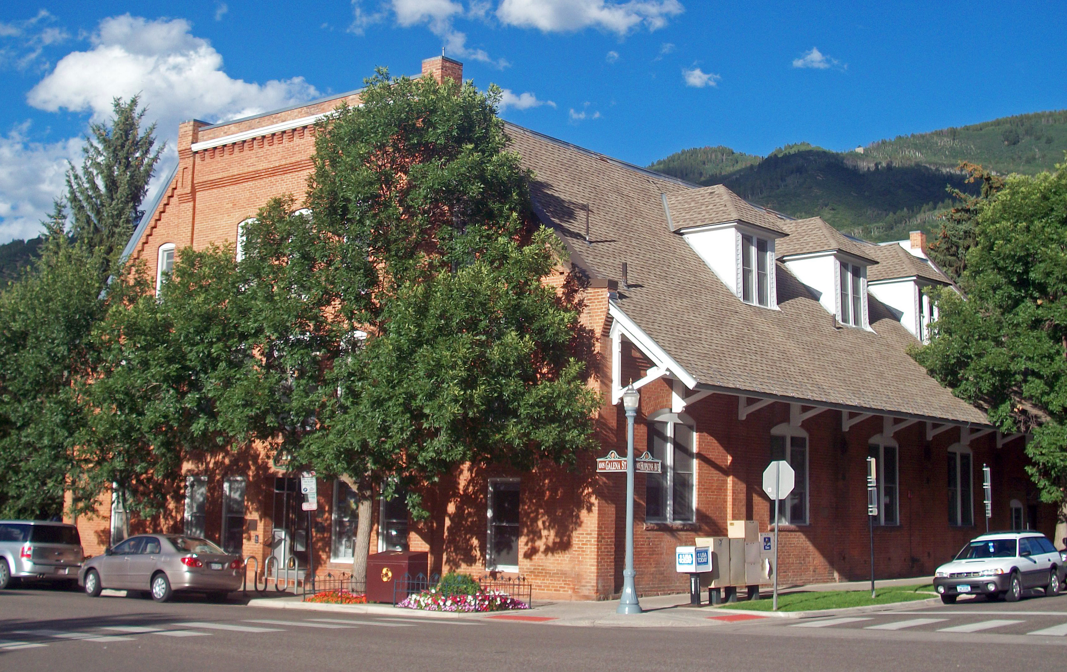 Former Armory Hall in Aspen, CO, USA, now used as city hall